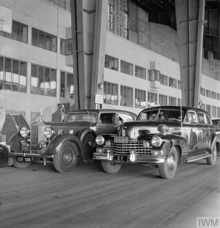 he Berlin Blockade, 1949. The British Prime Minister, Clement Attlee, visits Berlin to view the Airlift in operation. The official cars of the Commanders of American and British forces in Berlin at Tempelhof Airport. General Lucius D Clay's Cadillac is seen parked next to General Sir Brian Robertson's Rolls Royce.